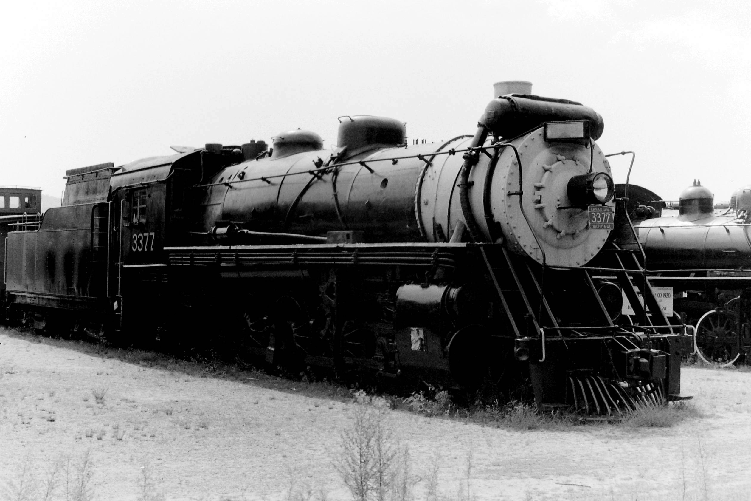 Canadian National Railways (ex-Canadian Government Railways) Class "S-1" 2-8-2 No.3377 (ex-CGR No.2977), built by CLC (Works No.1582) in 1919. 327 Class "S-1's" were built by CN, CLC, MLW, ALCO & Baldwin 1913-26 for CGR, GT & CN. At Steamtown, Bellows Falls, 8/70.